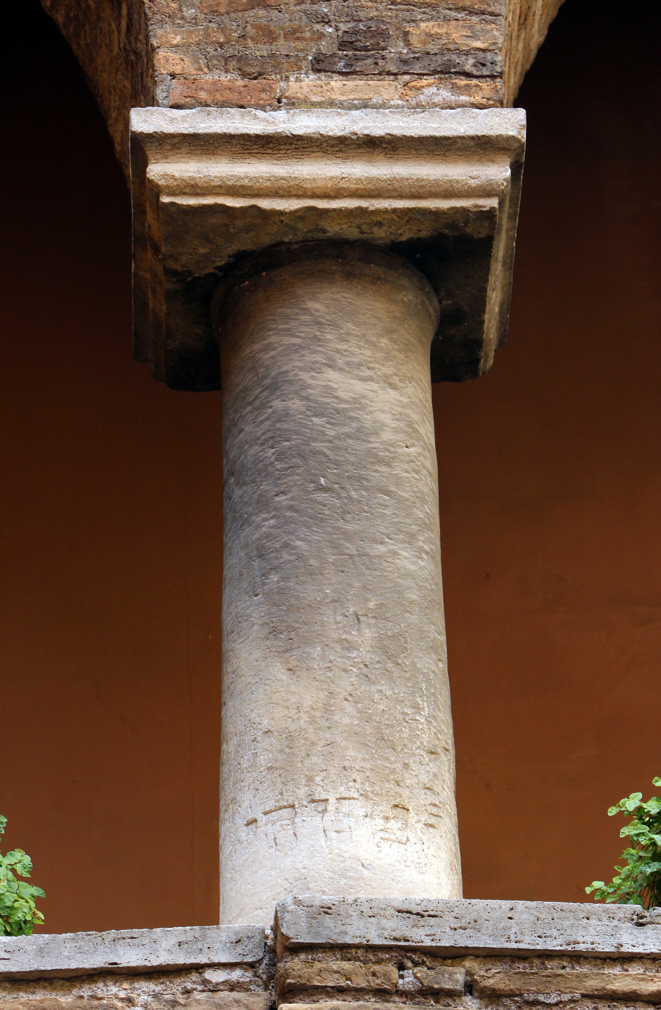 Rome, miscellany